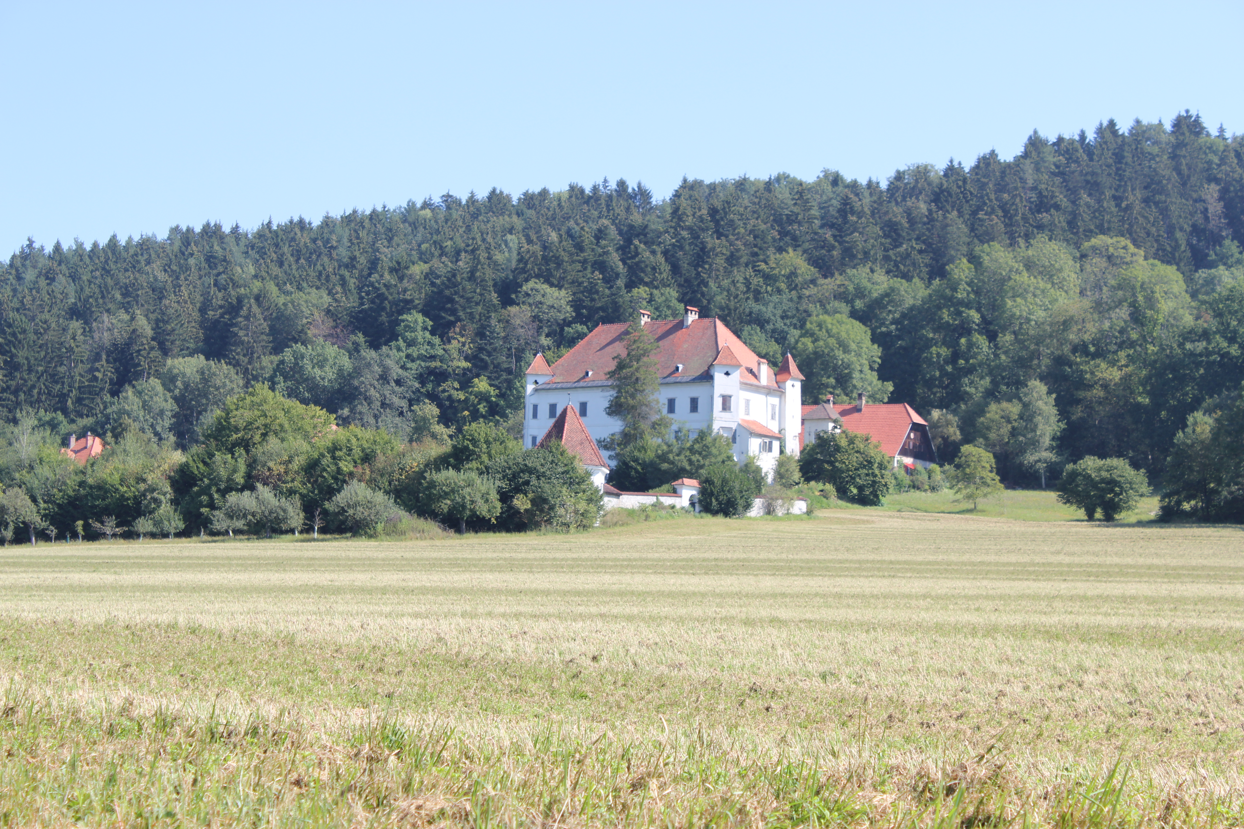 Ehrenegg castle in the community of Griffen